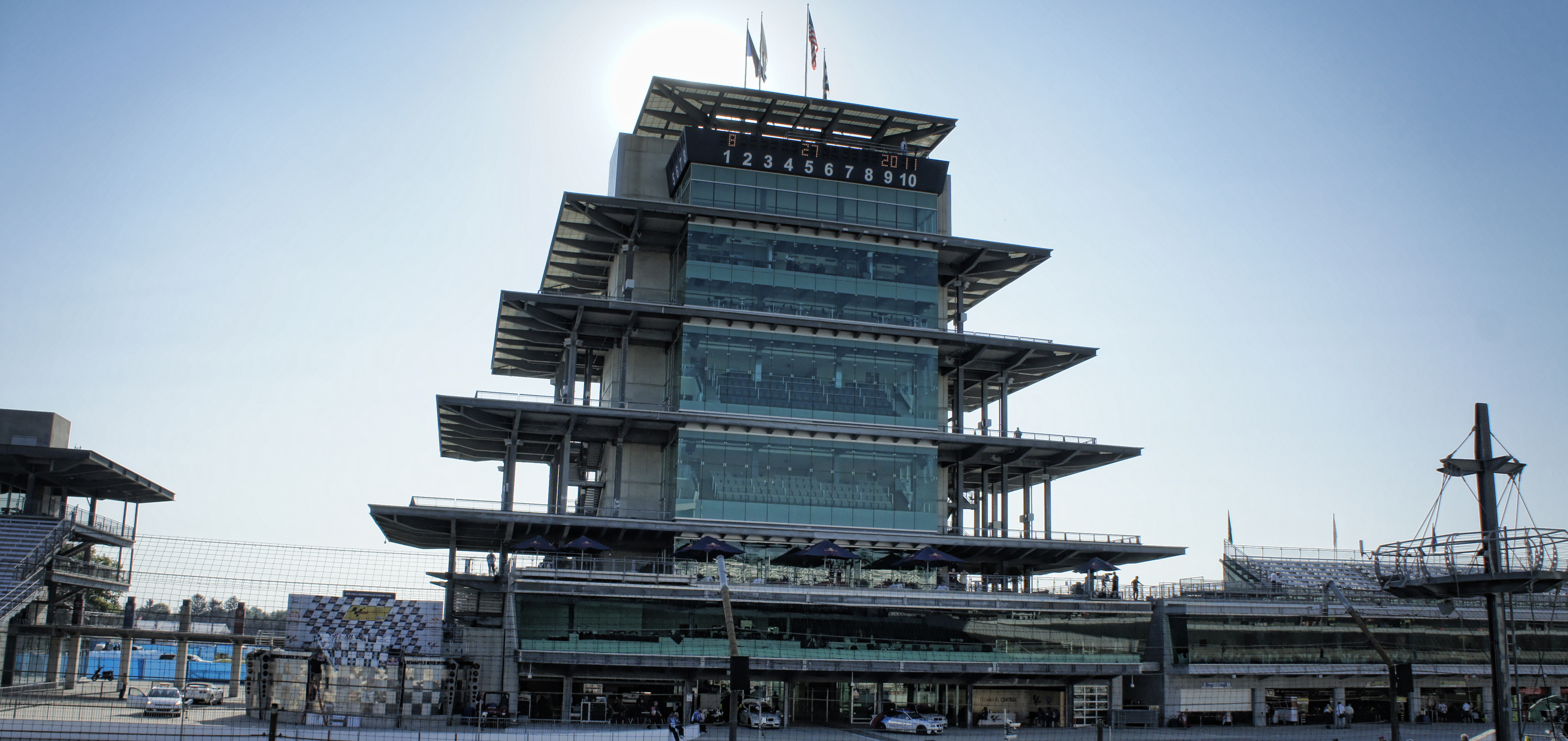 The pagoda at the Indianapolis Motor Speedway, August 2011.